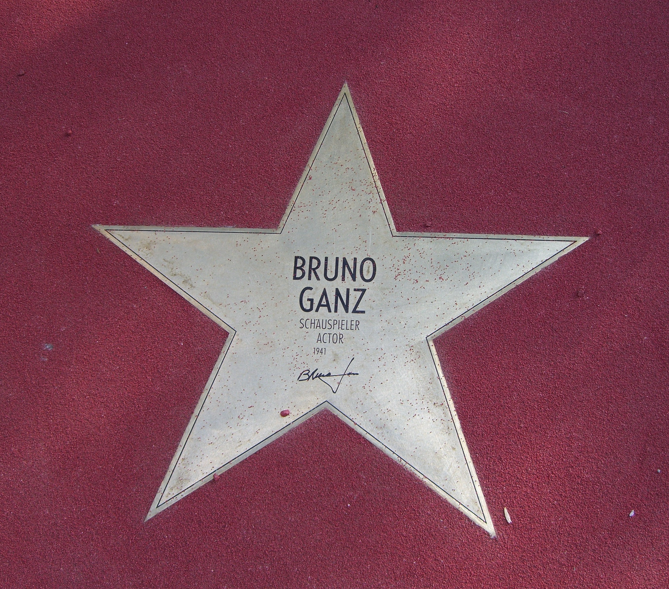 Star of Bruno Ganz at "Boulevard der Stars" in Berlin.